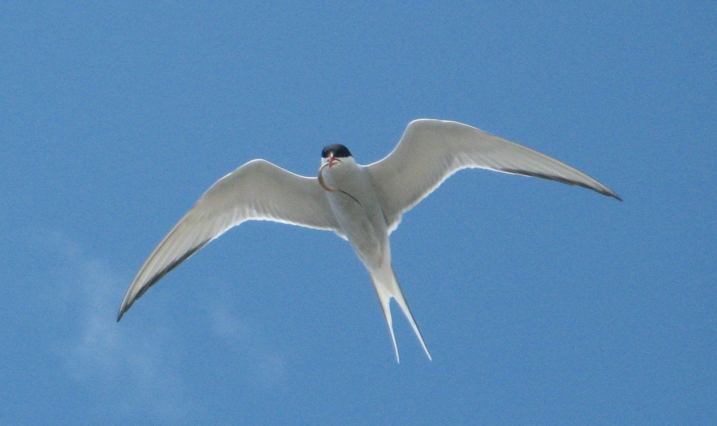 sterna paradisaea (Küstenseeschwalbe, arctic tern) in the air at the Eidersperrwerk